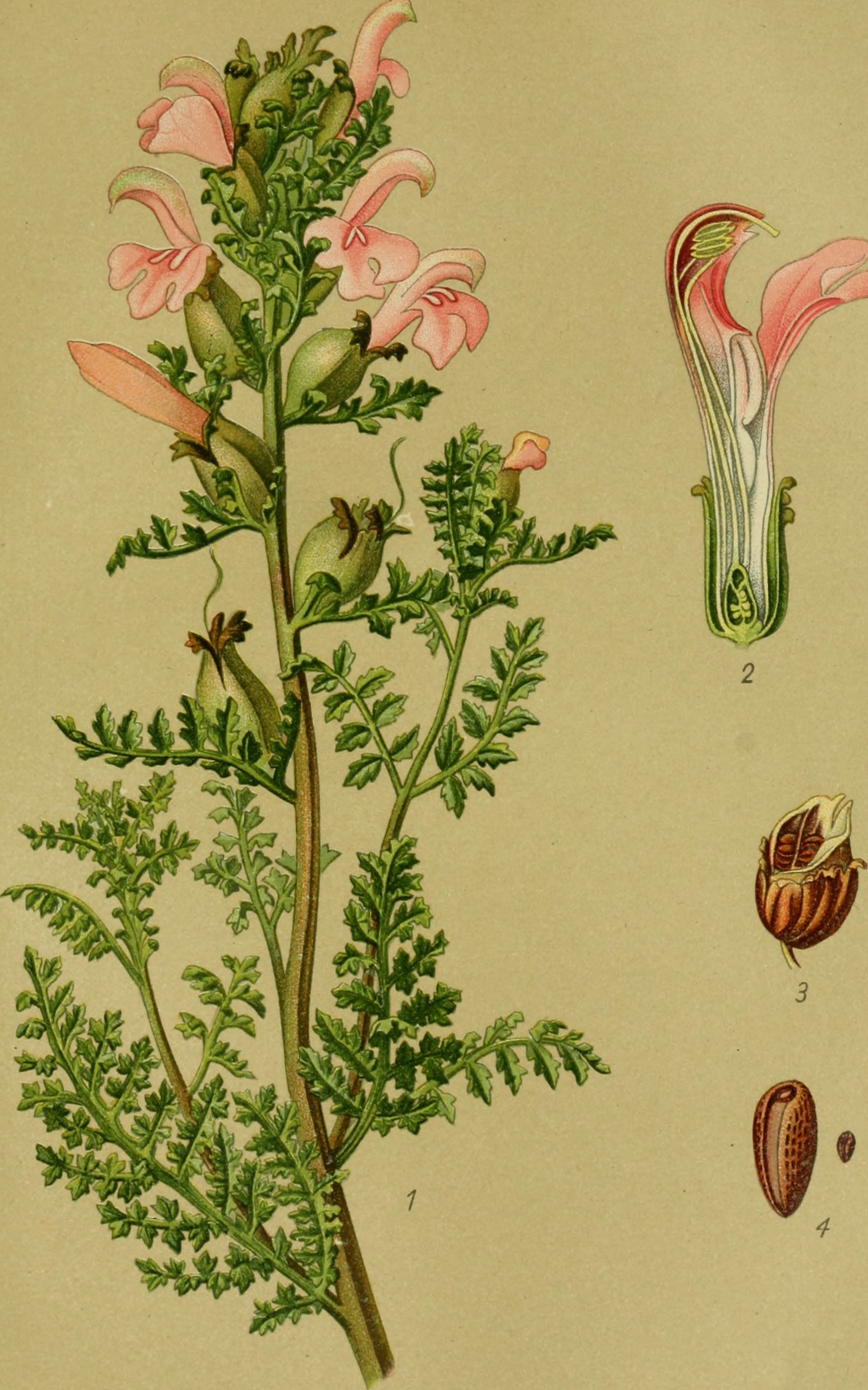 Title: Die Giftpflanzen Deutschlands Year: 1910 (1910s) Authors: Esser, Peter, 1859- Subjects: Poisonous plants Publisher: Braunschweig, F. Vieweg Text Appearing Before Image: Tafel 103. Tafel 103. Text Appearing After Image: Sumpf-Läusekraut. Pedicu/aris palustris L 1 Blühender Sproß. 2 Blüte im Längsschnitt, vergr. 3 Frucht, aufgesprungen. 4 Same, vergr. u. nat. Größe.